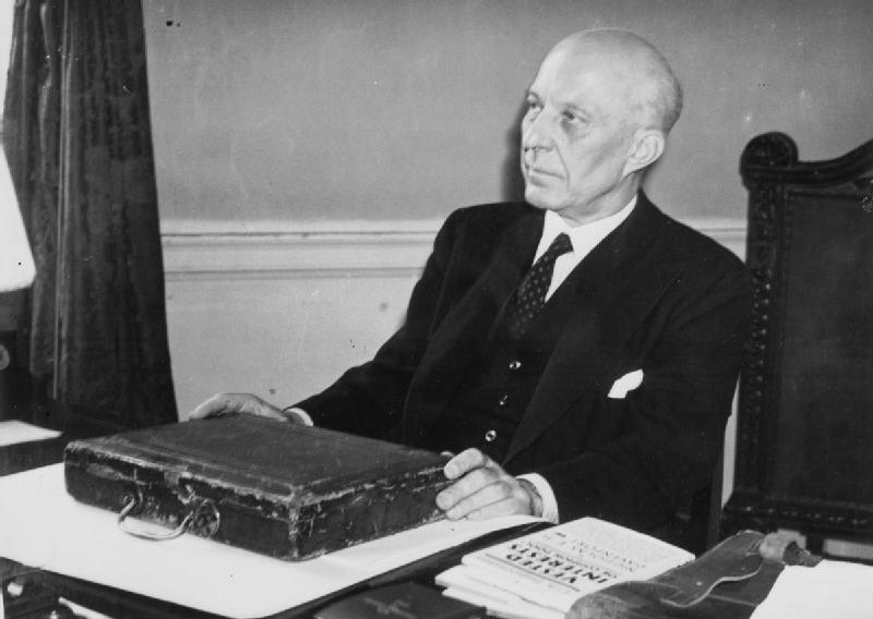 Hugh Dalton